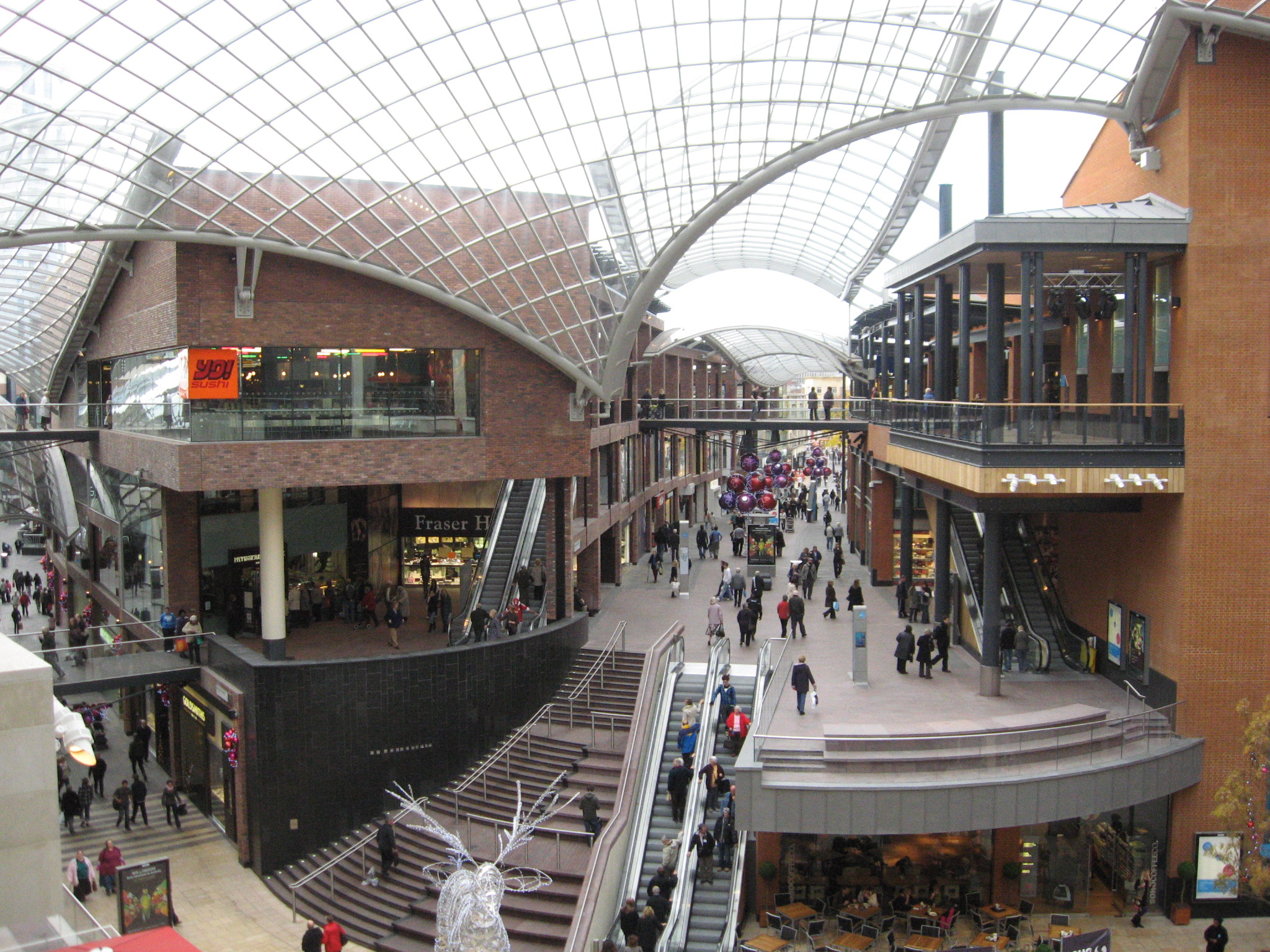 Cabot Circus shopping centre, Bristol, England